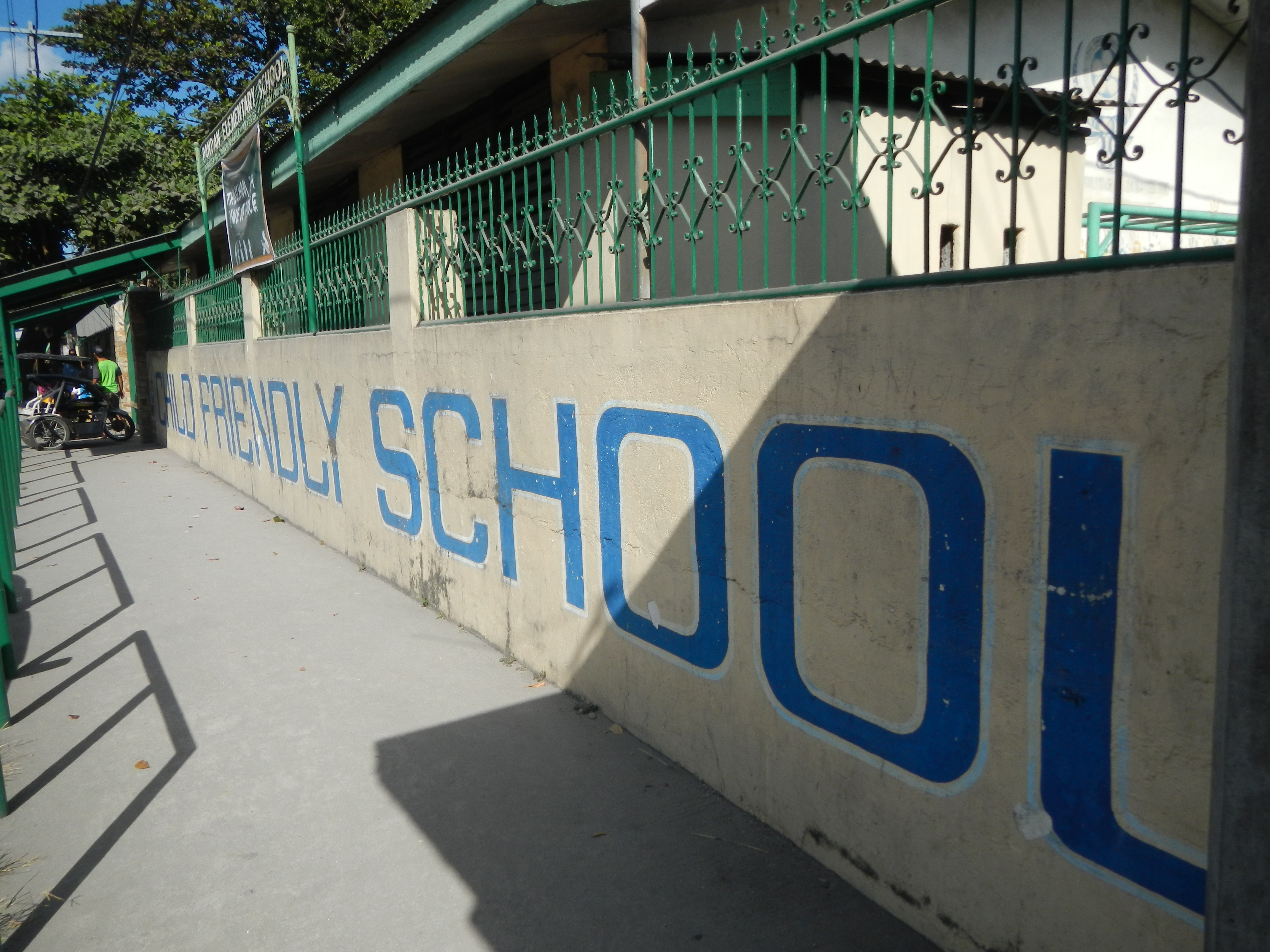 Upload Wizard photos of Fields Avenue in Barangay Balibago and beside it is Barangay Pandan, Angeles[1] City, Pampanga, the Official Seal and Logo, the Flag Seal, the Barangay Hall, and the Flag Seal of Angeles City, all in the Barangay Hall.